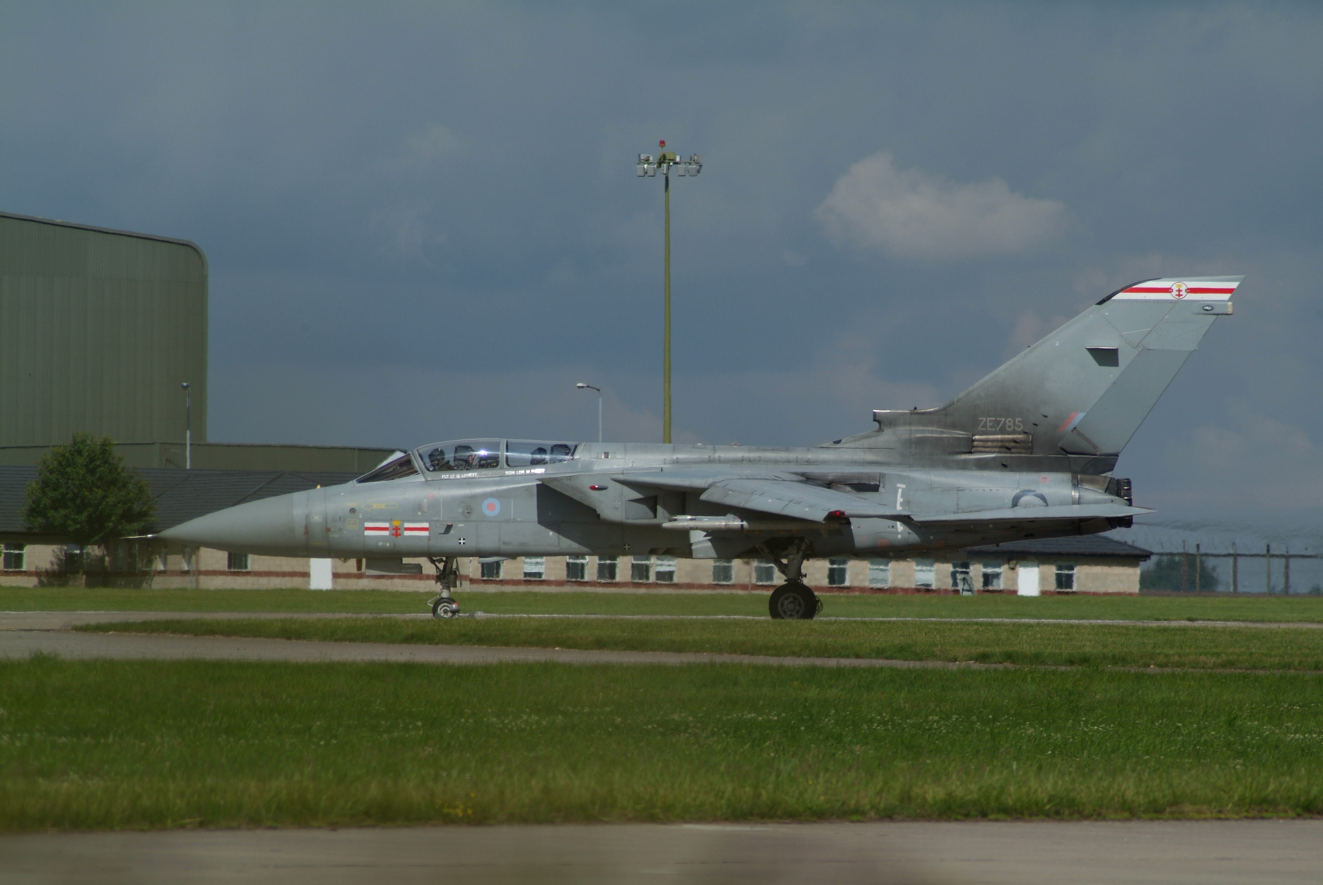 Tornado F.3 ZE785 41 Squadron about to depart from RAF Waddington during exercise Indra Danush in July 2007. 41 is based at RAF Coningsby, about fifteen miles from Waddington and has only relatively recently stood up on Tornados after operating the Janguar for many years.